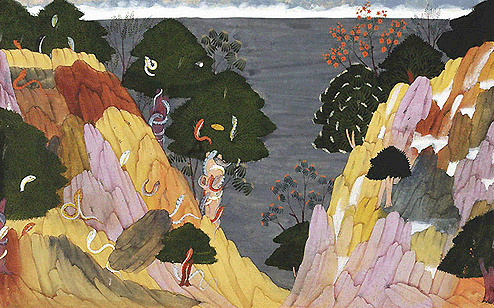 Himalayan Scene Gita-govinda, by Manaku, c. 1730 Basohli School, Guler, Himachal Pradesh